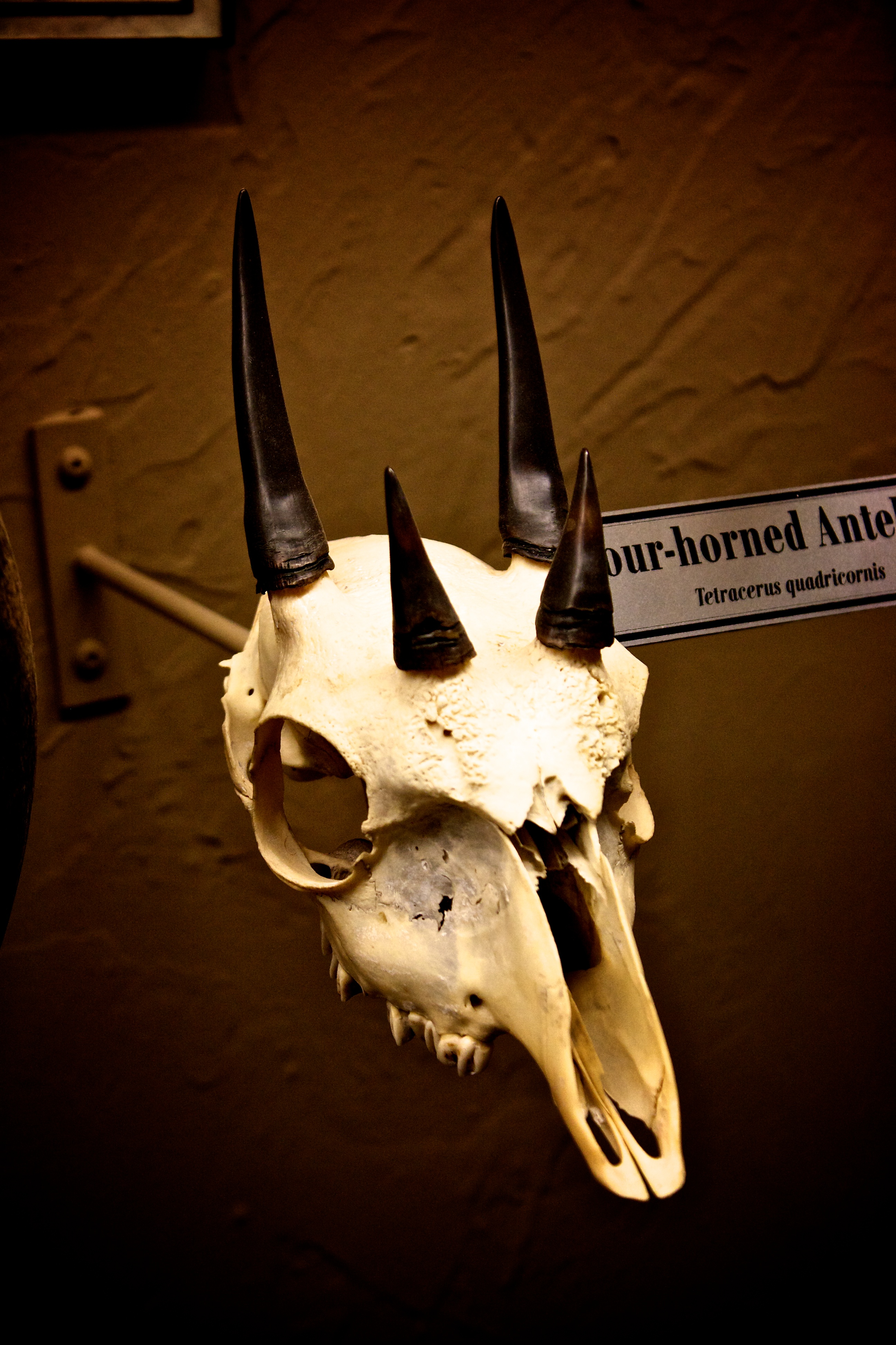 Sull of a Tetracerus quadricornis at the Osteology Museum of Oklahoma